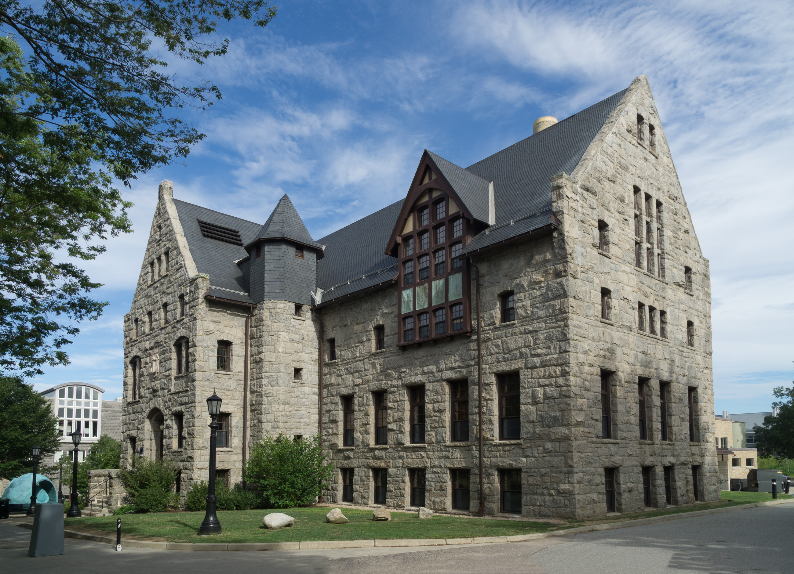 Lippitt Hall (named after Governor Charles W. Lippitt) was originally a drill hall and armory. Built 1897. University of Rhode Island, Kingston campus.